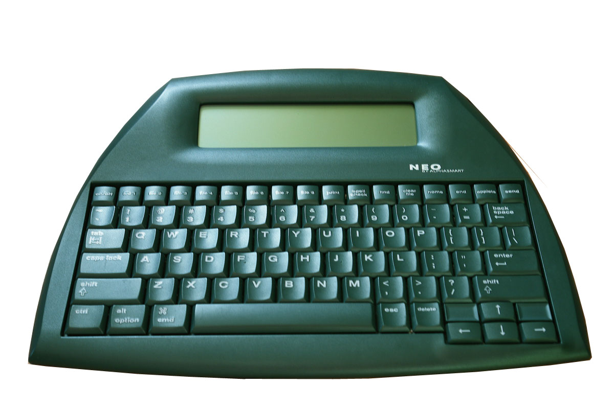 photo shot by me at request; it is also included in the photo pool of the AlphaSmart Group on Flickr: no copyright; free for you to use